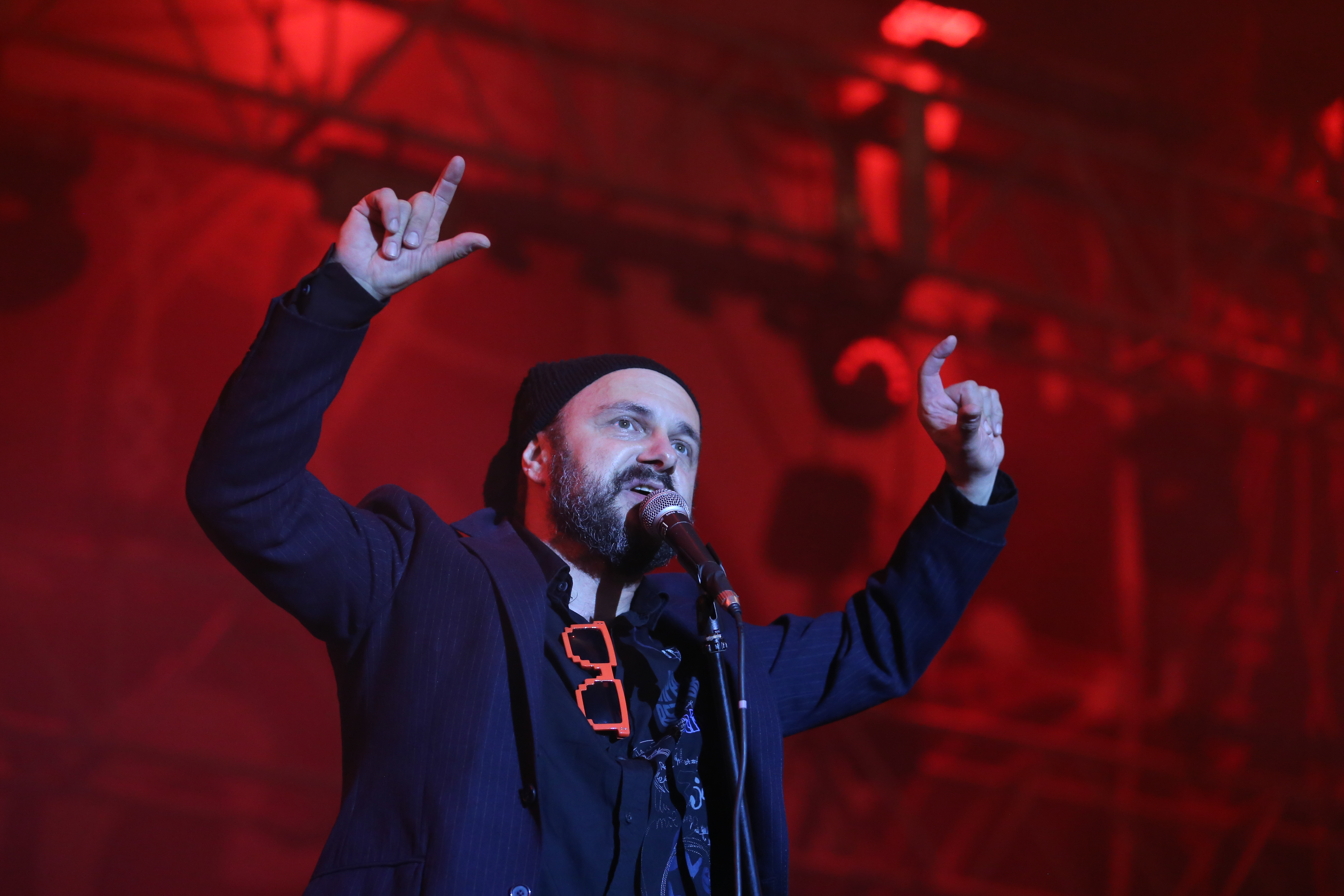 Przystanek Woodstock in 2017.